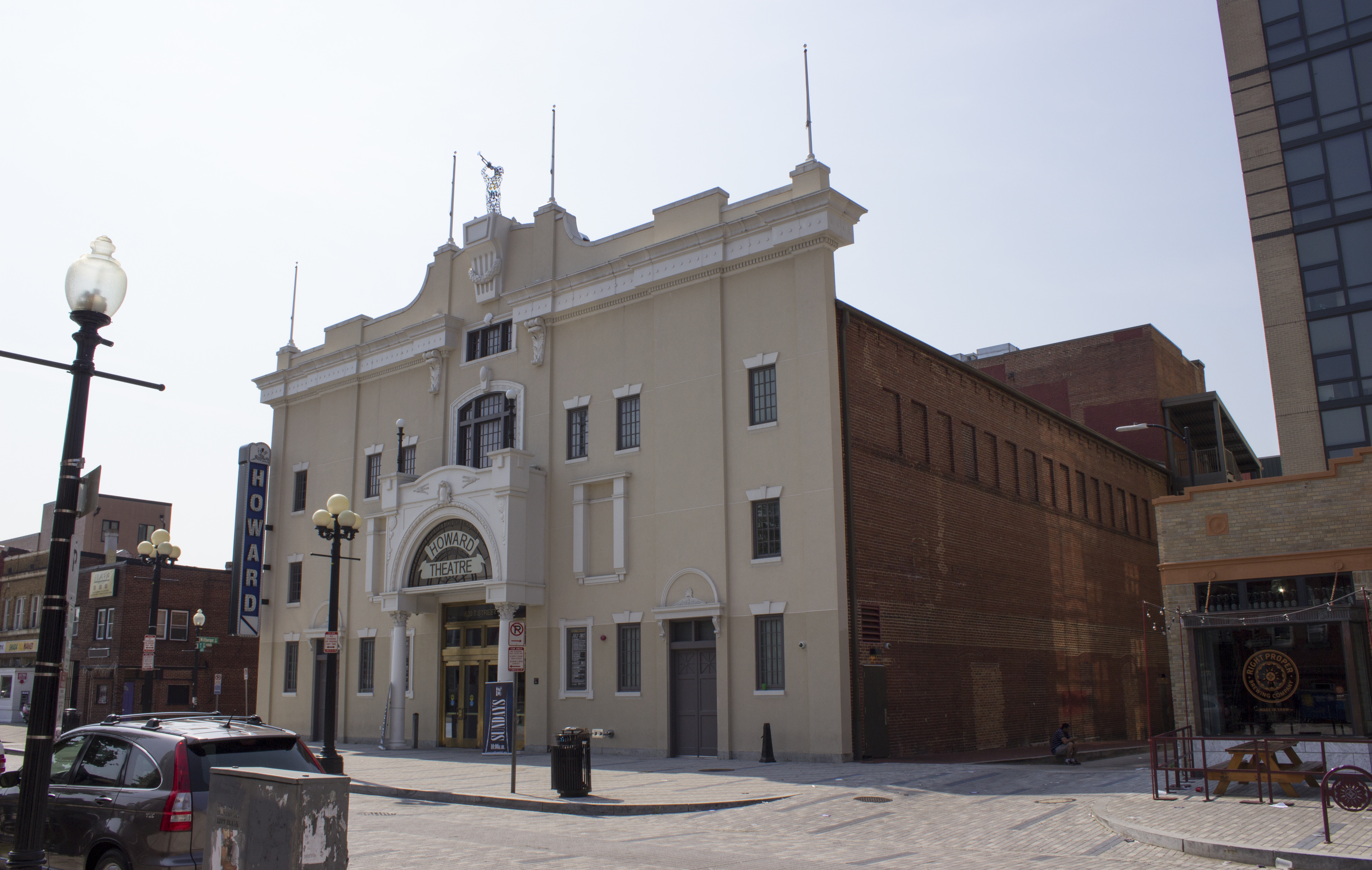 Howard Theatre